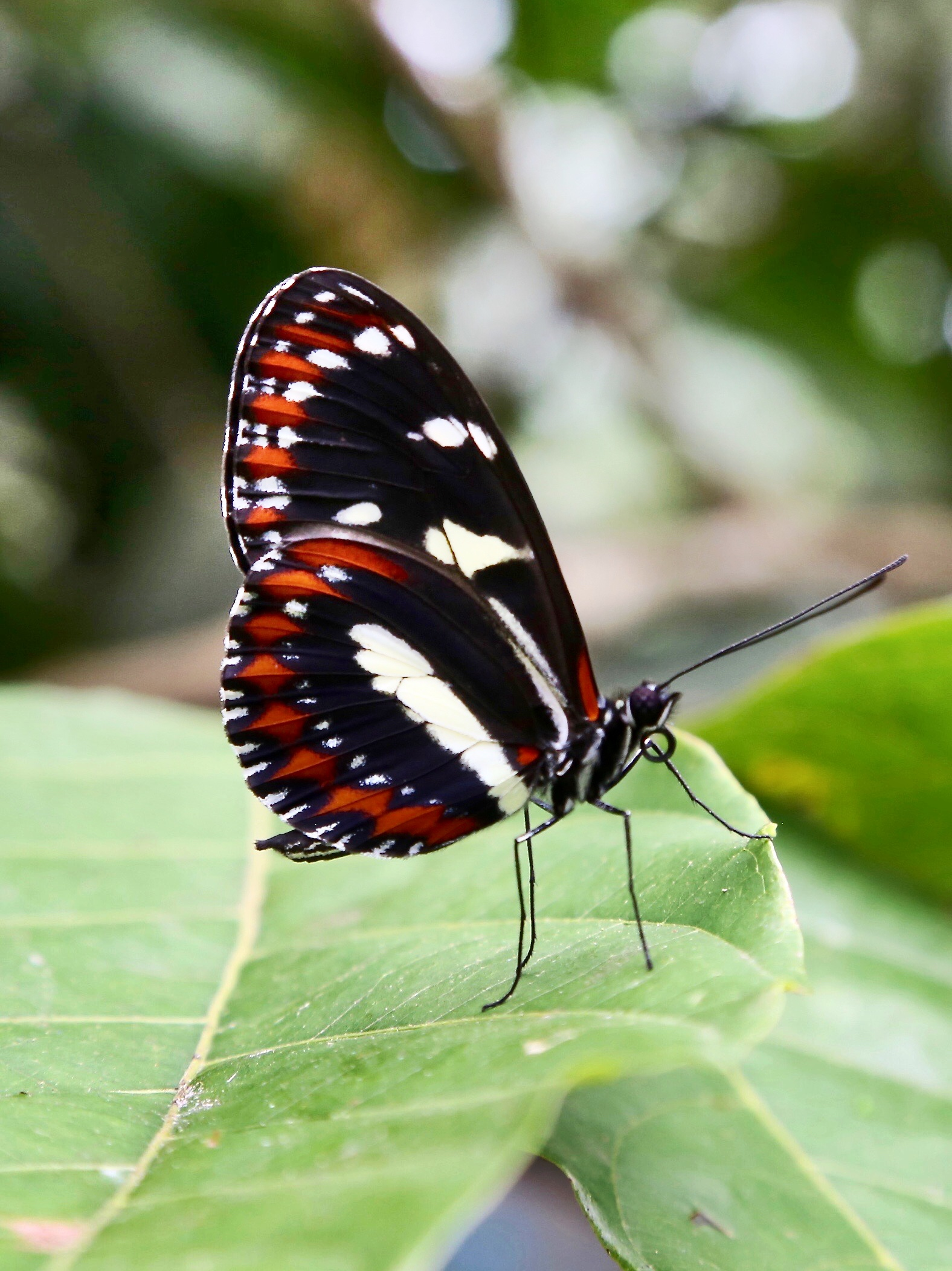 Ecuador, Mindo. Heliconius atthis is endemic to West Ecuador.